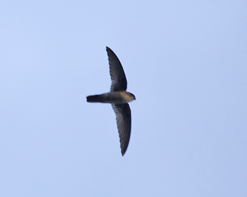 Uniform Swiftlet (Aerodramus vanikorensis) ssp Aerodramus vanikorensis steini Biak, Papua, Indonesia 15th. January 2008 Q0S6320